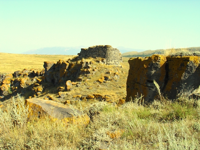 Saro fortress, Georgia.